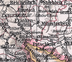 Detail from a map of Silesia.